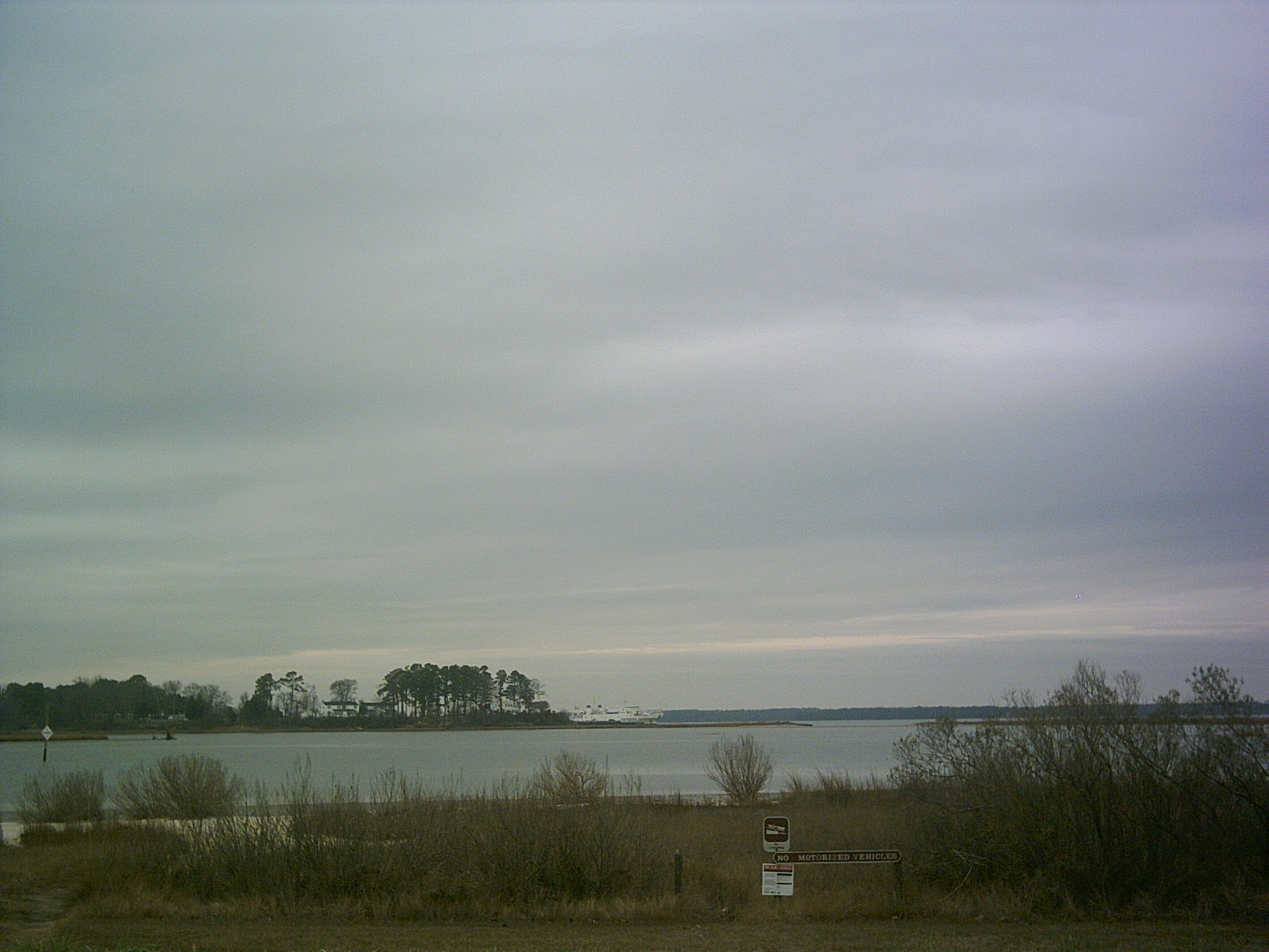 Cheatham Annex from the Colonial Parkway